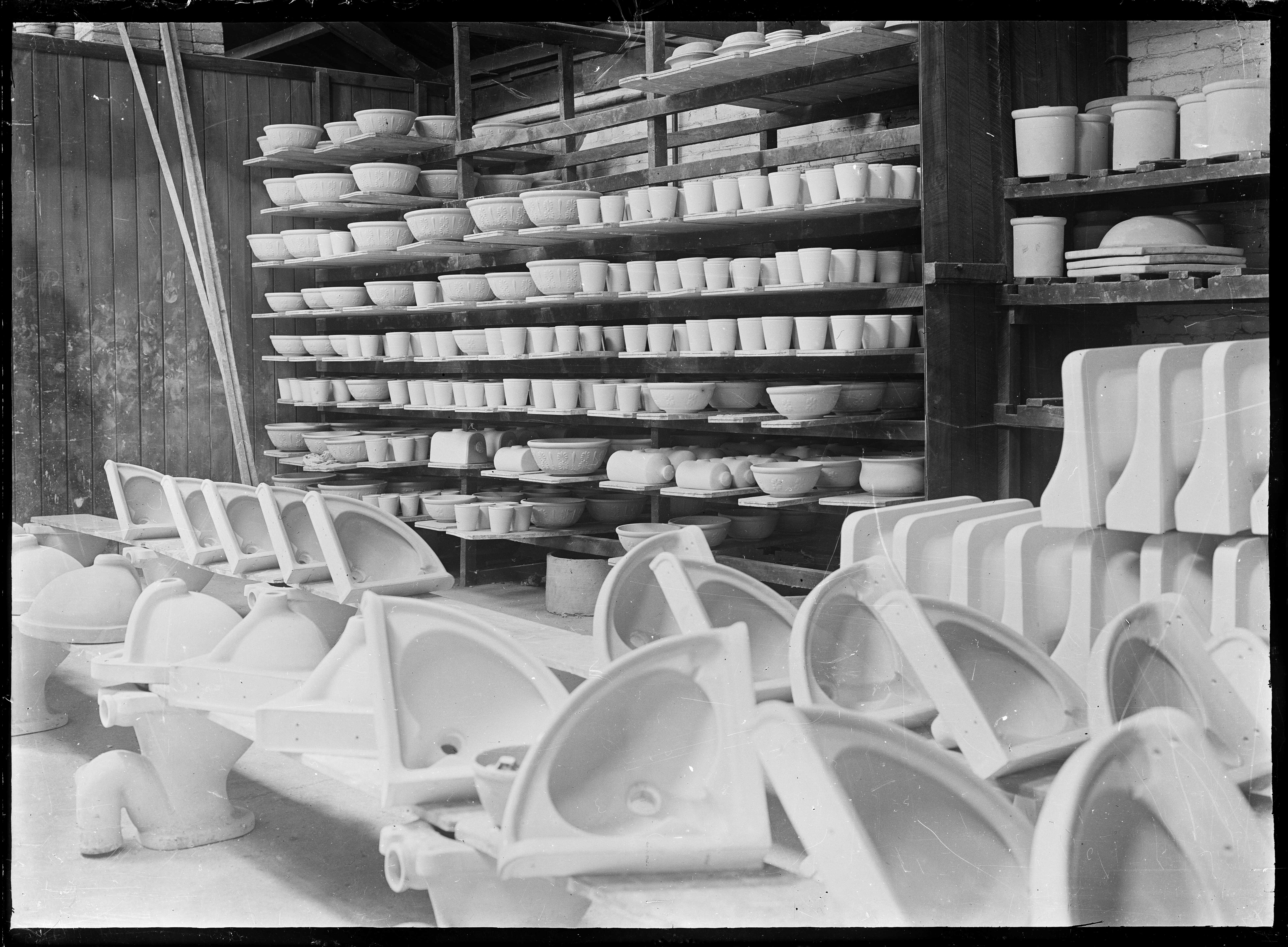 Interior view of McSkimming & Son pottery works at Benhar, Otago. Image shows shelves of mixing bowls and other household items, with handbasins on wheeled palettes in the foreground. Photograph taken by Albert Percy Godber in 1926.